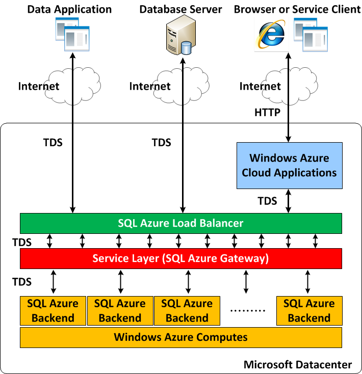 SQL Azure Service Architecture